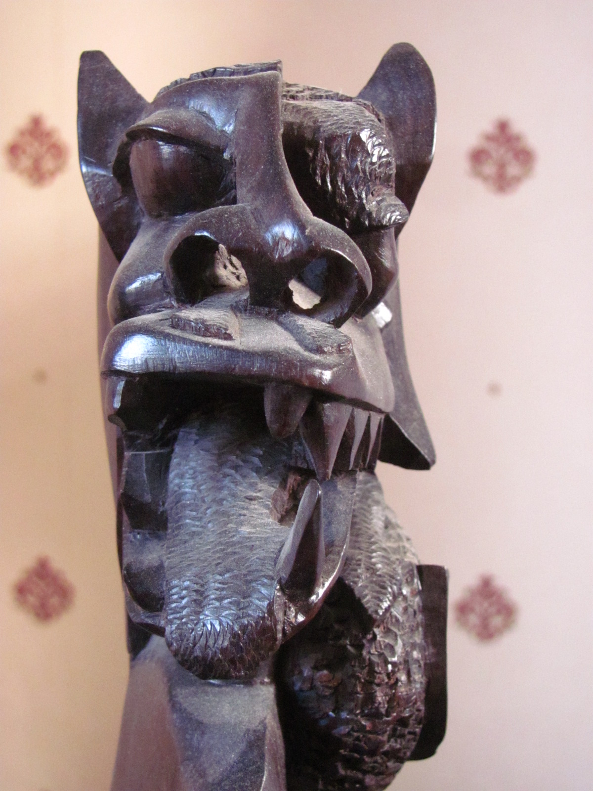 A carving made by a Makonde man using African blackwood known locally as mpingo. It represents a spirit (or shetani) which is neither good nor bad.